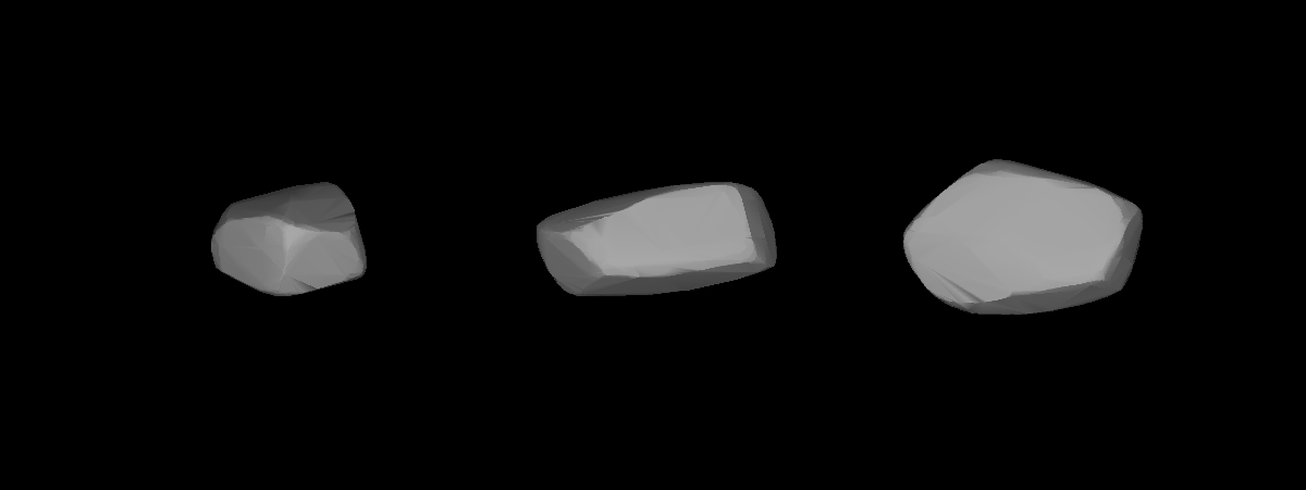 A three-dimensional model of 1087 Arabis that was computed using light curve inversion techniques.